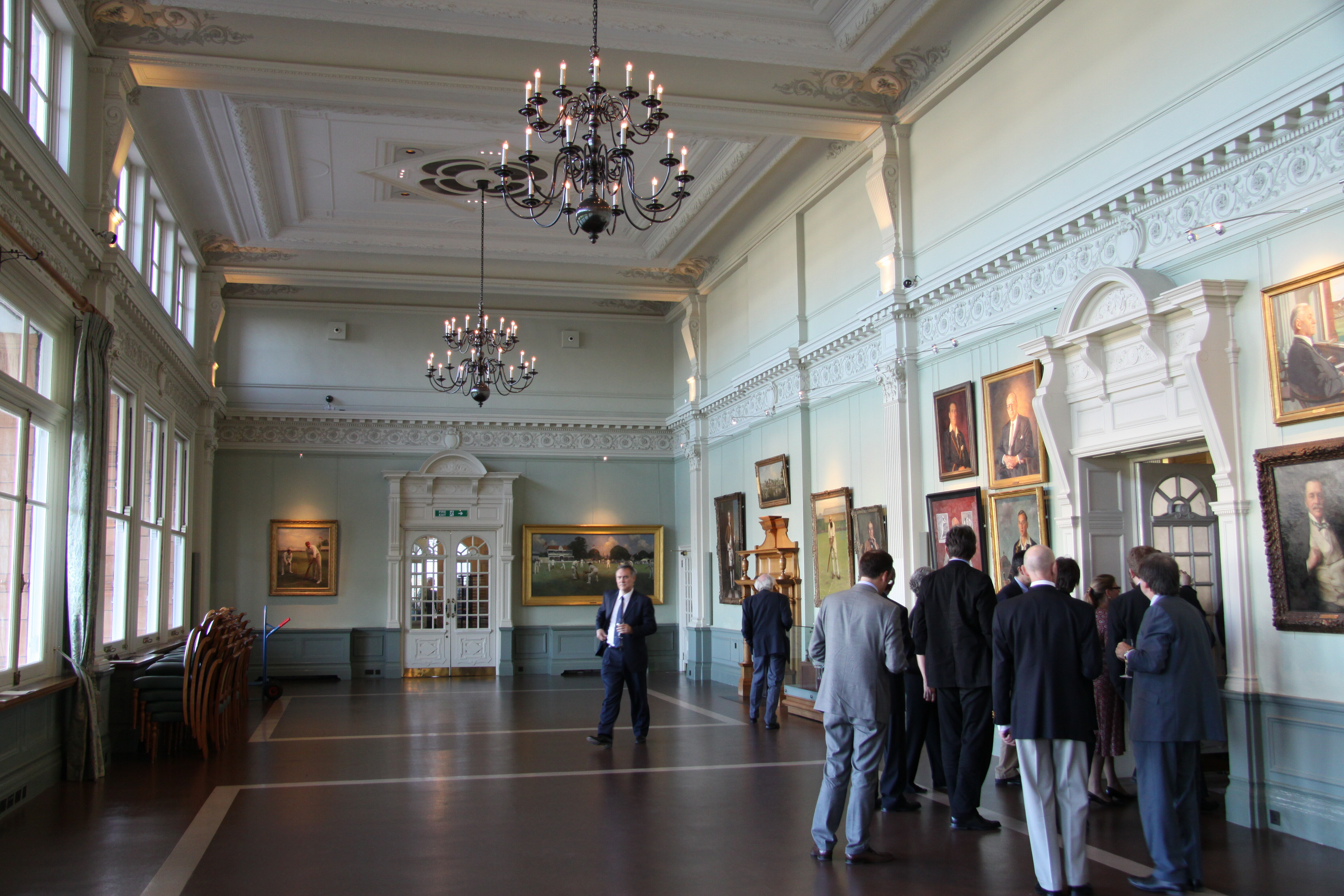 View of the Long Room in the Lords cricket ground pavilion